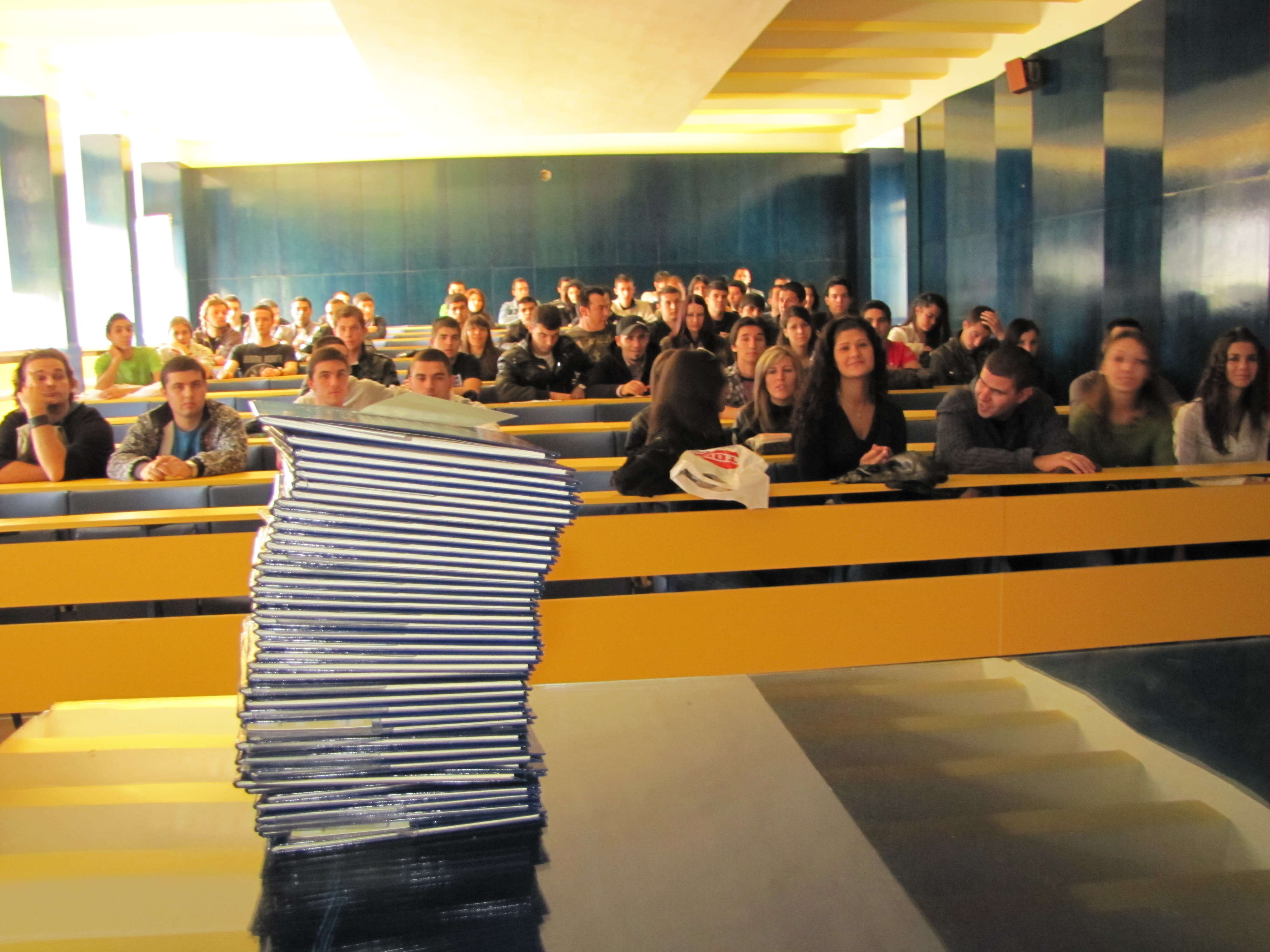 Зала 107, УниБИТ.